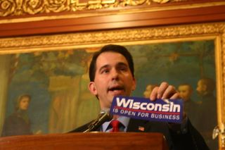 Wisconsin Governor, Scott Walker, during a press conference.